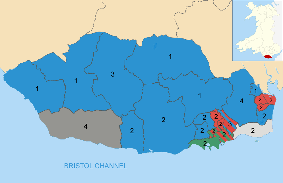 Results of the Vale of Glamorgan Council election, May 2017, indicating numbers of councillors per ward and their party affiliations. Colours: Conservative Labour Plaid Cymru Llantwit First Independent Striped wards have mixed representation.